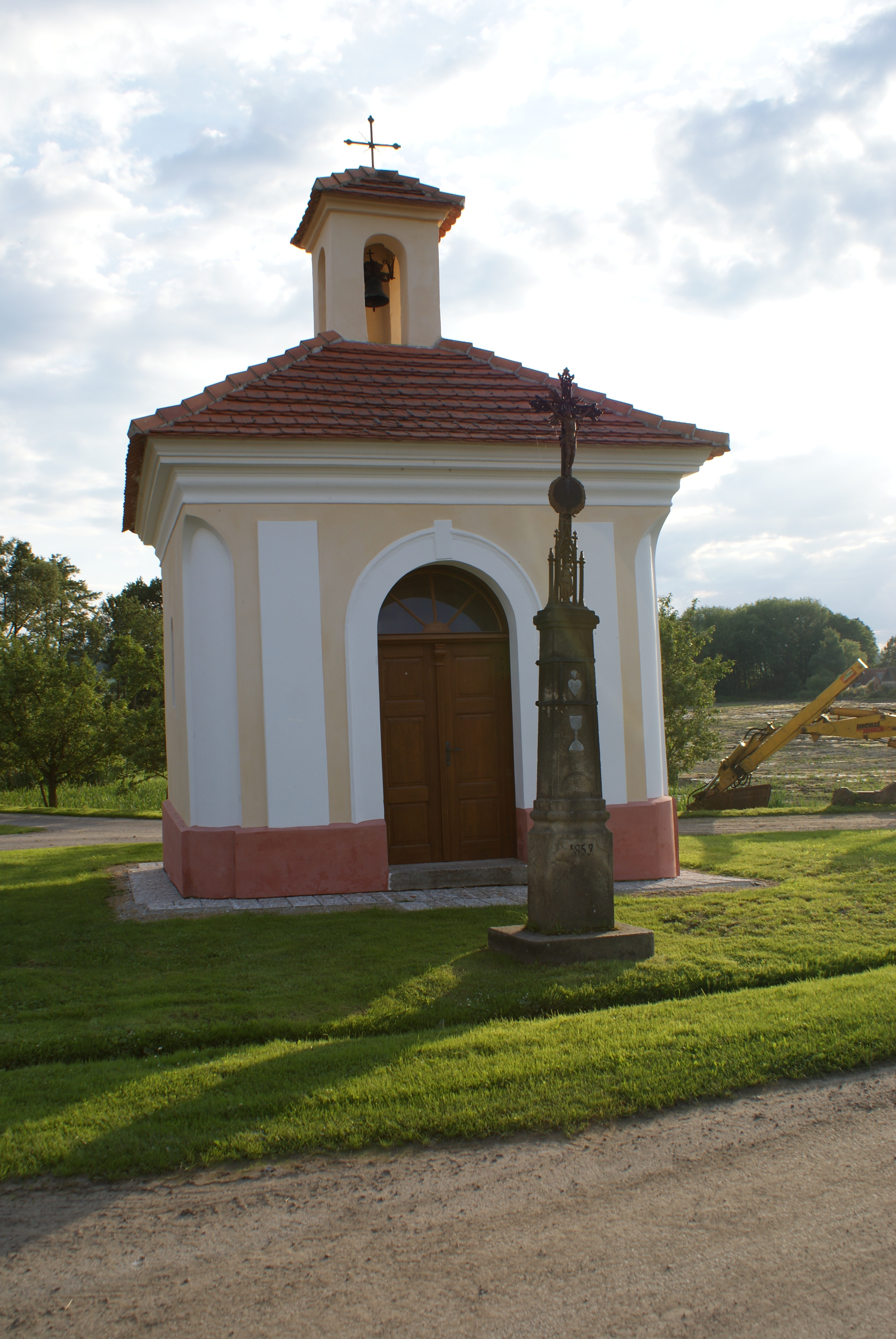 Albrechtice, village in Strakonice district, Czech Republic, a chapel.